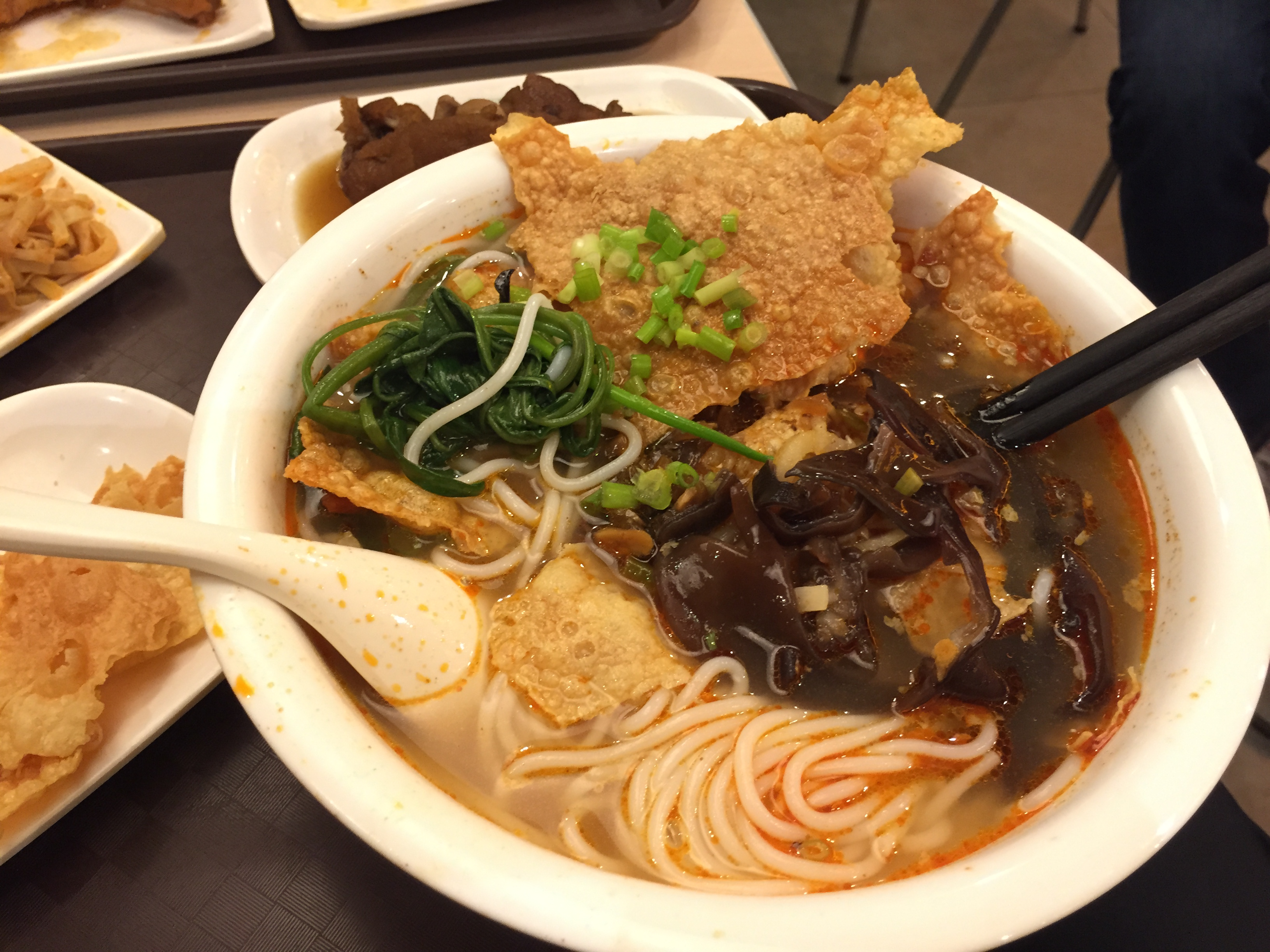 Its official English translation is "Liuzhou river snails rice noodles", but when we say "Luosifen", we're likely to consider it "screw powder" (literal translation for "螺丝粉", which shares the same pronunciation with this "螺蛳粉"), or "screw rice noodles".